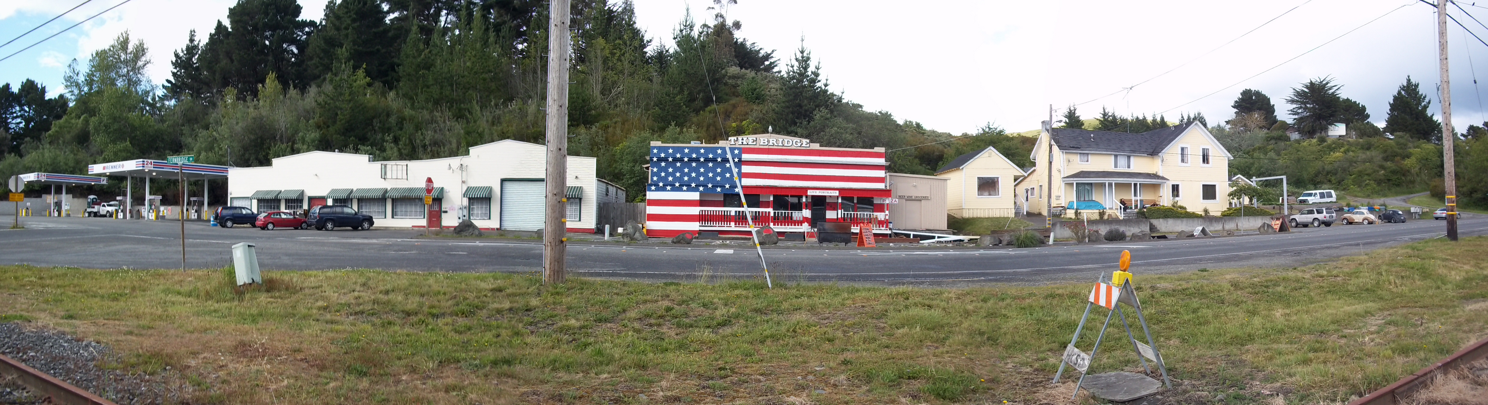 Panoramic photo of Fernbridge, California. A small unincorporated community in Humboldt County, California that anchors one end of California Route 211. Photo shows the buildings on the Northeast side of Fernbridge Drive.